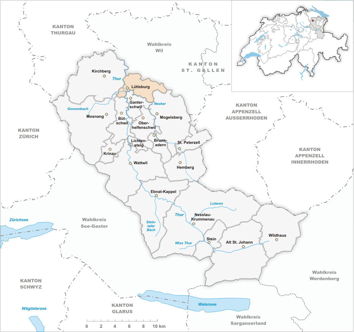 Municipality Lütisburg